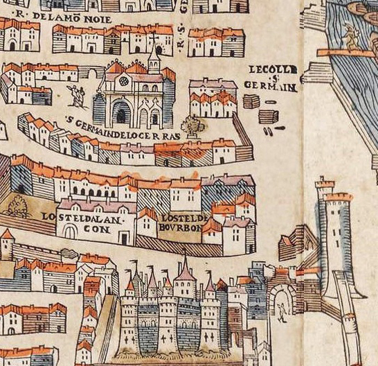 St-Germain church, Louvre and Coin tower on the Plan de Truschet and Hoyau (1550).